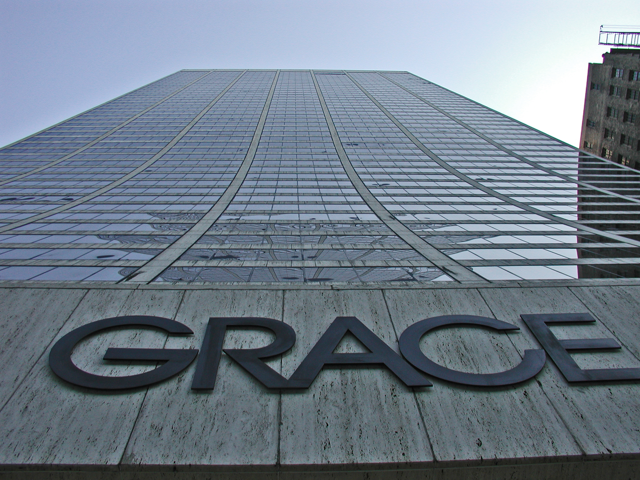 Grace Building in New York City from entrance on 42nd Street.